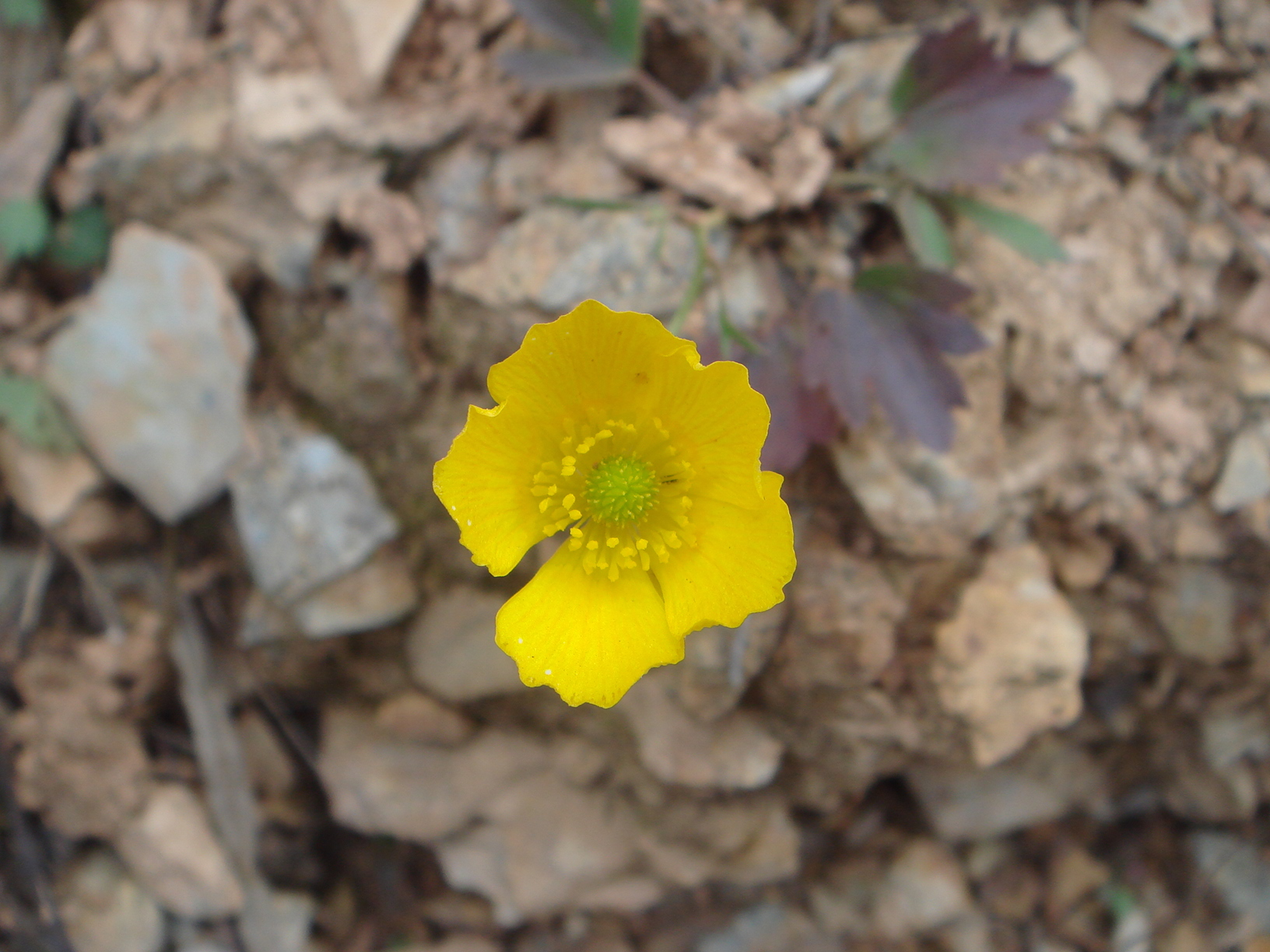 Jersey buttercup, Spain, Ceuta.